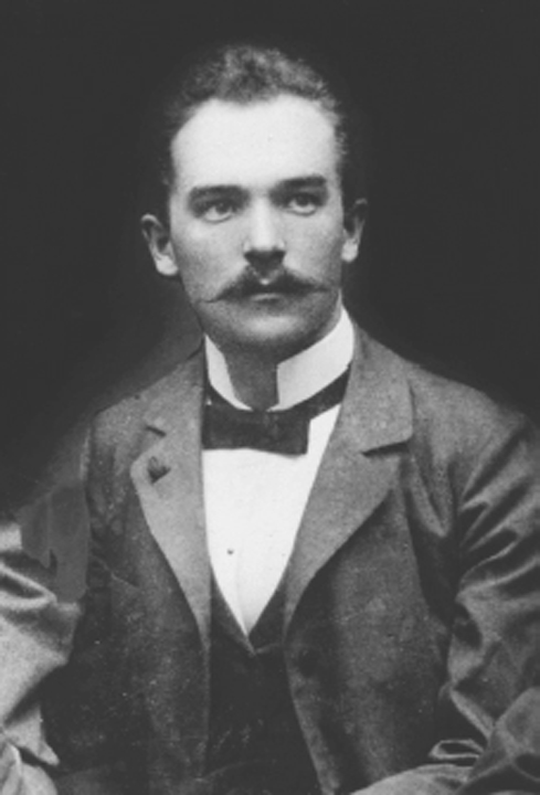 Slovak writer, dramatist and poet Jozef Gregor Tajovský